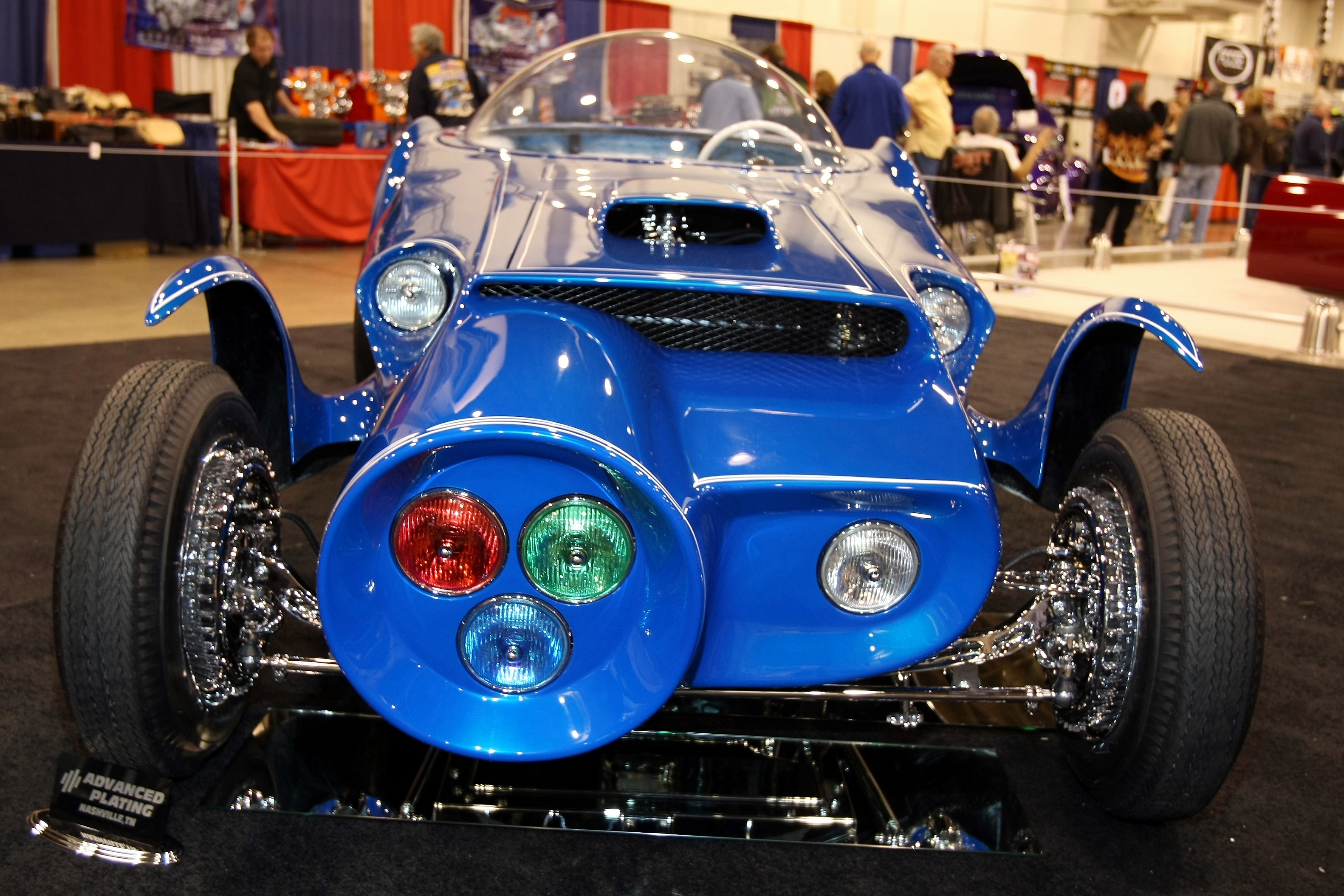 Front of the restored Ed Roth "Orbitron" custom car at the Pomona Fairplex, Pomona, CA USA in January 2009